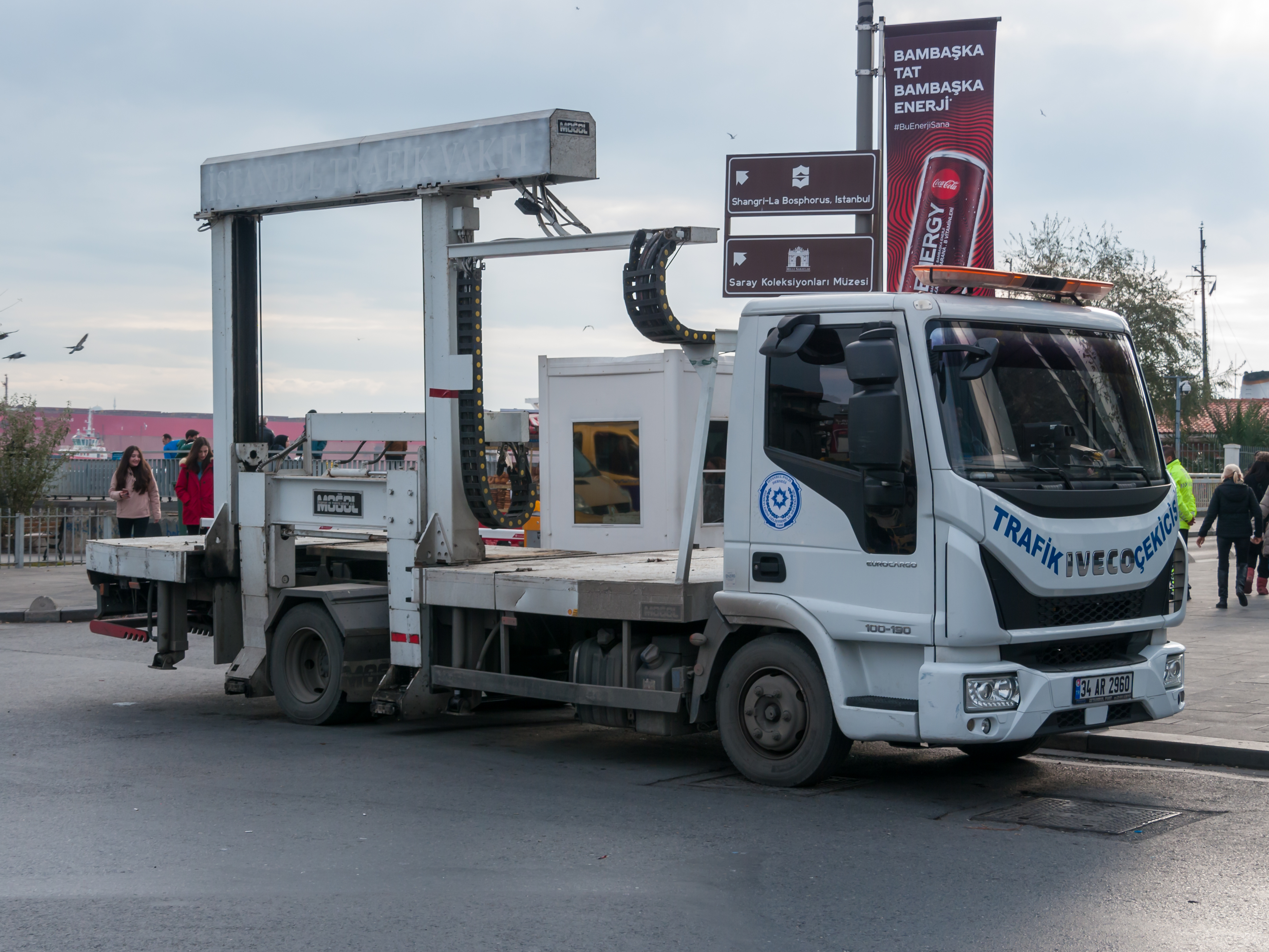 Sideloading Police tow truck in Istanbul